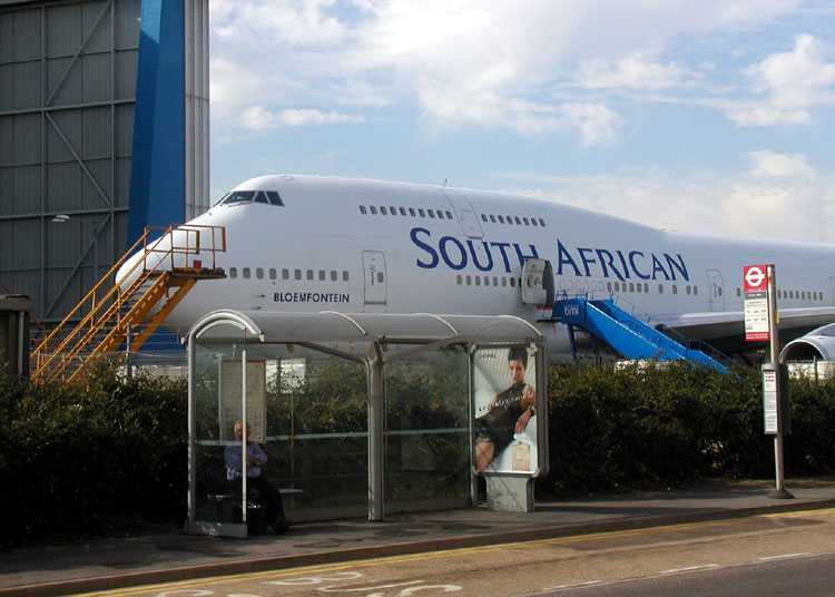 A public bus stop with an unusual view, inside London (Heathrow) Airport, England. The aircraft is a South African Airways Boeing 747-444 (ZS-SAW, "Bloemfontein").